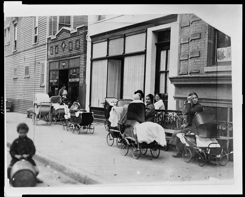 The Sanger Clinic, 46 Amber Street, Brooklyn.